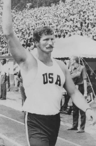 1971 Press Photo Bill Skinner and Kepchoge Keine Wave at the Olympic Ceremony